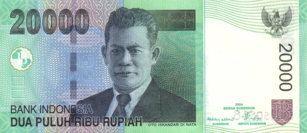 Indonesian currency issued 1998-2005.